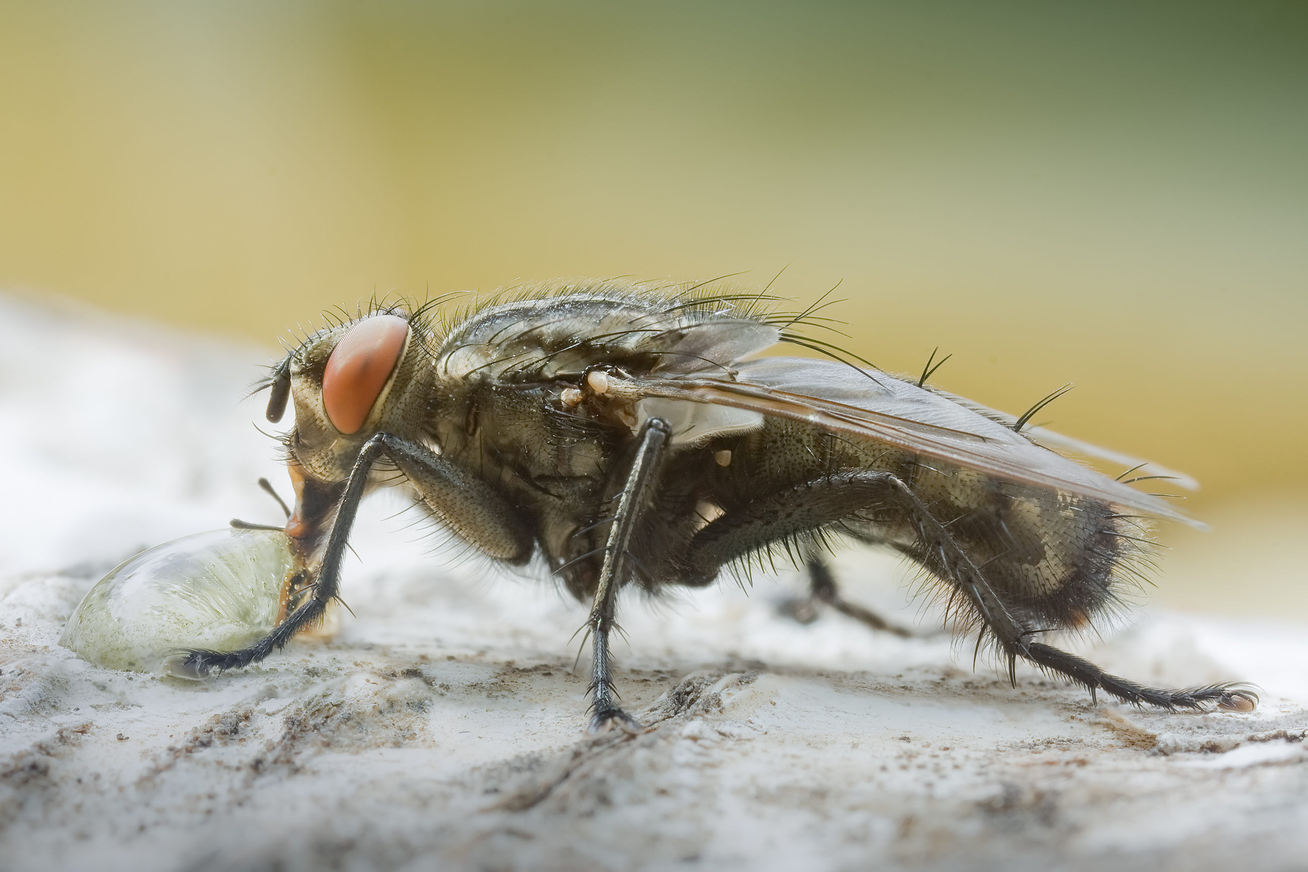 A male Sarcophaga sp. fly, of the Diptera family Sarcophagidae (from the Greek sarco- = flesh, phage = eating; the same roots as the word "sarcophagus"). Sarcophagidae are commonly known as flesh flies.